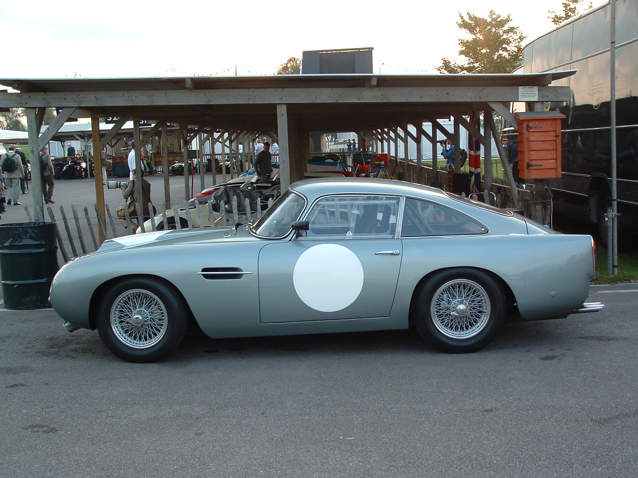 DB4GT at 2004 Goodwood Revival